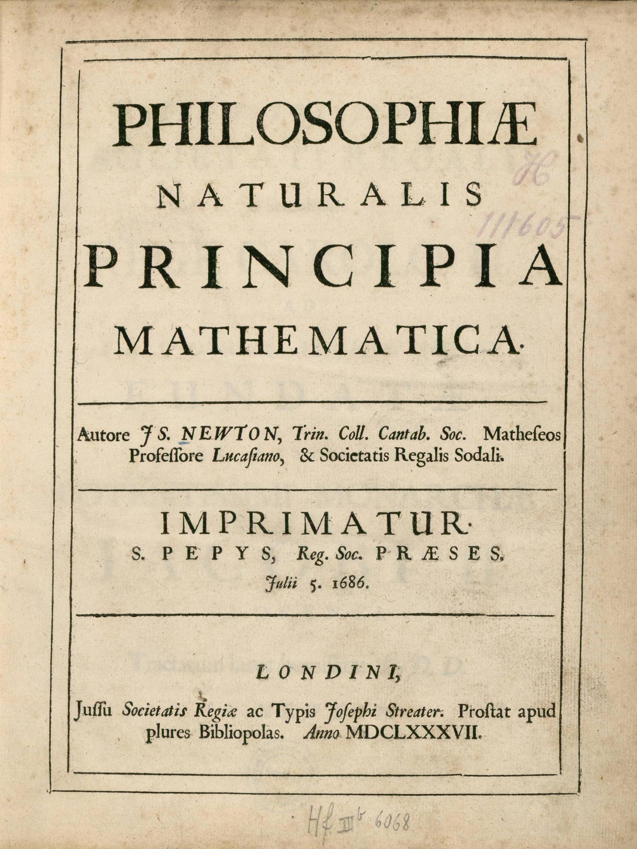 Isaac Newton's first edition of his Philosophiae Naturalis Principia Mathematica